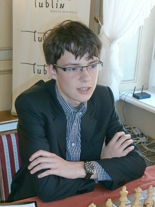 GM Kamil Dragun playing in the 5th International GM Tournament "The Lublin Union Memorial" in Lublin (Poland)